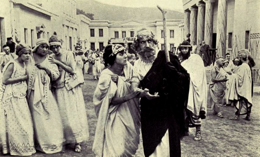 Still from the American film Damon and Pythias (1914) with Ann Little, facing page 224 of the 1915 novel. Caption: Dionysius is resolved on Damon's death.